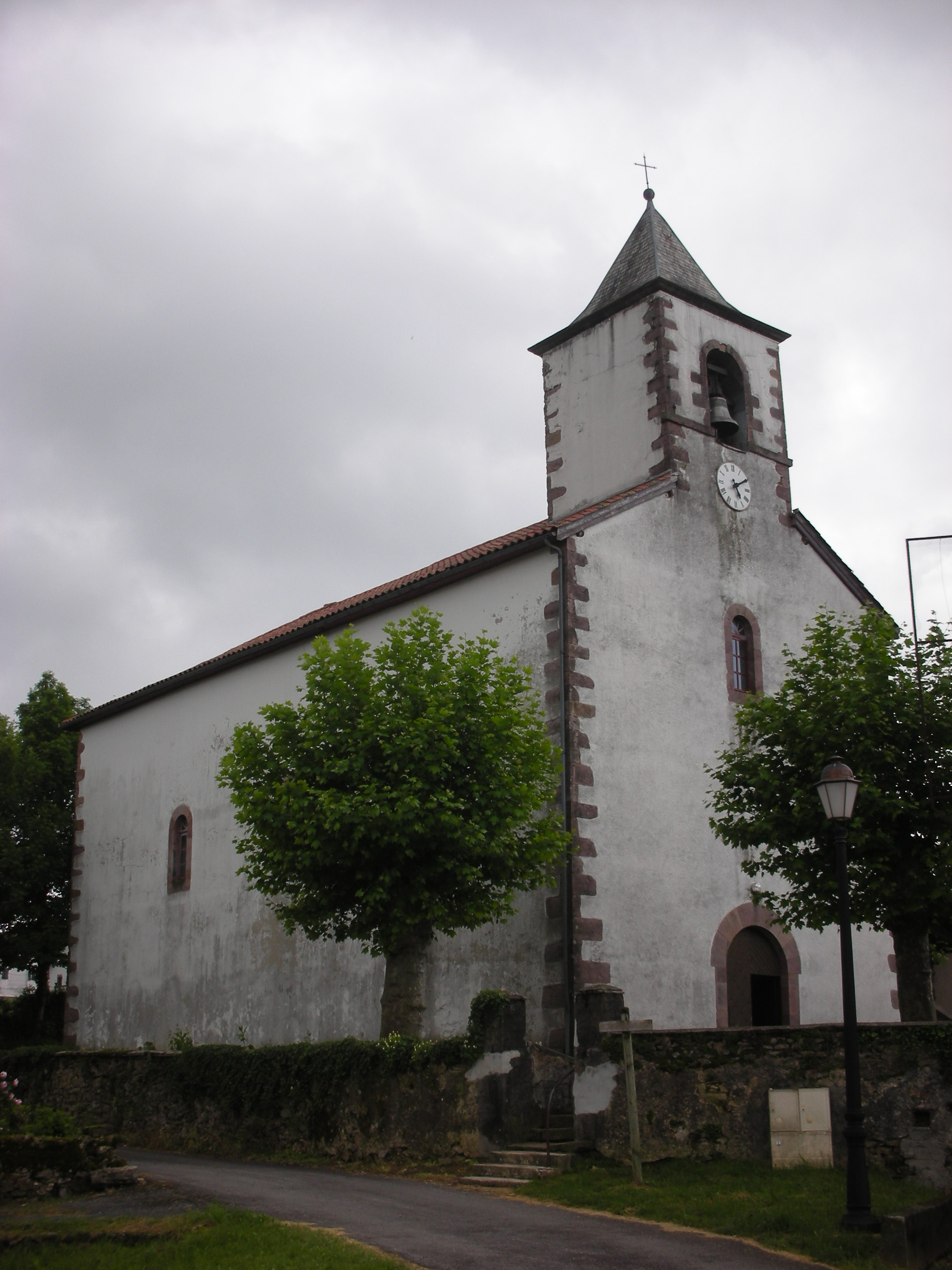 Parish church of Our Lady of the Assumption in Esnazu (France)